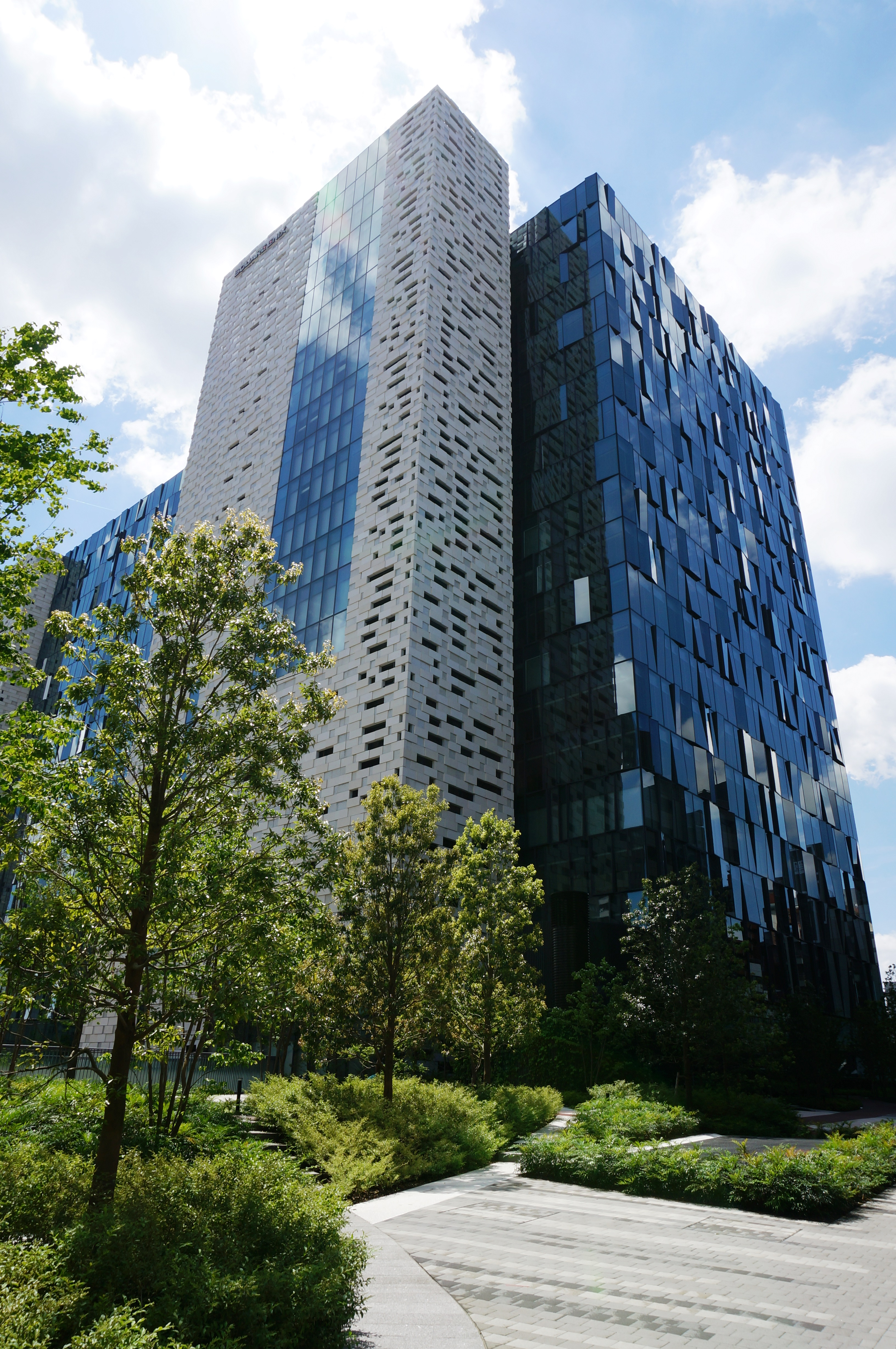 Shinjuku Eastside Square